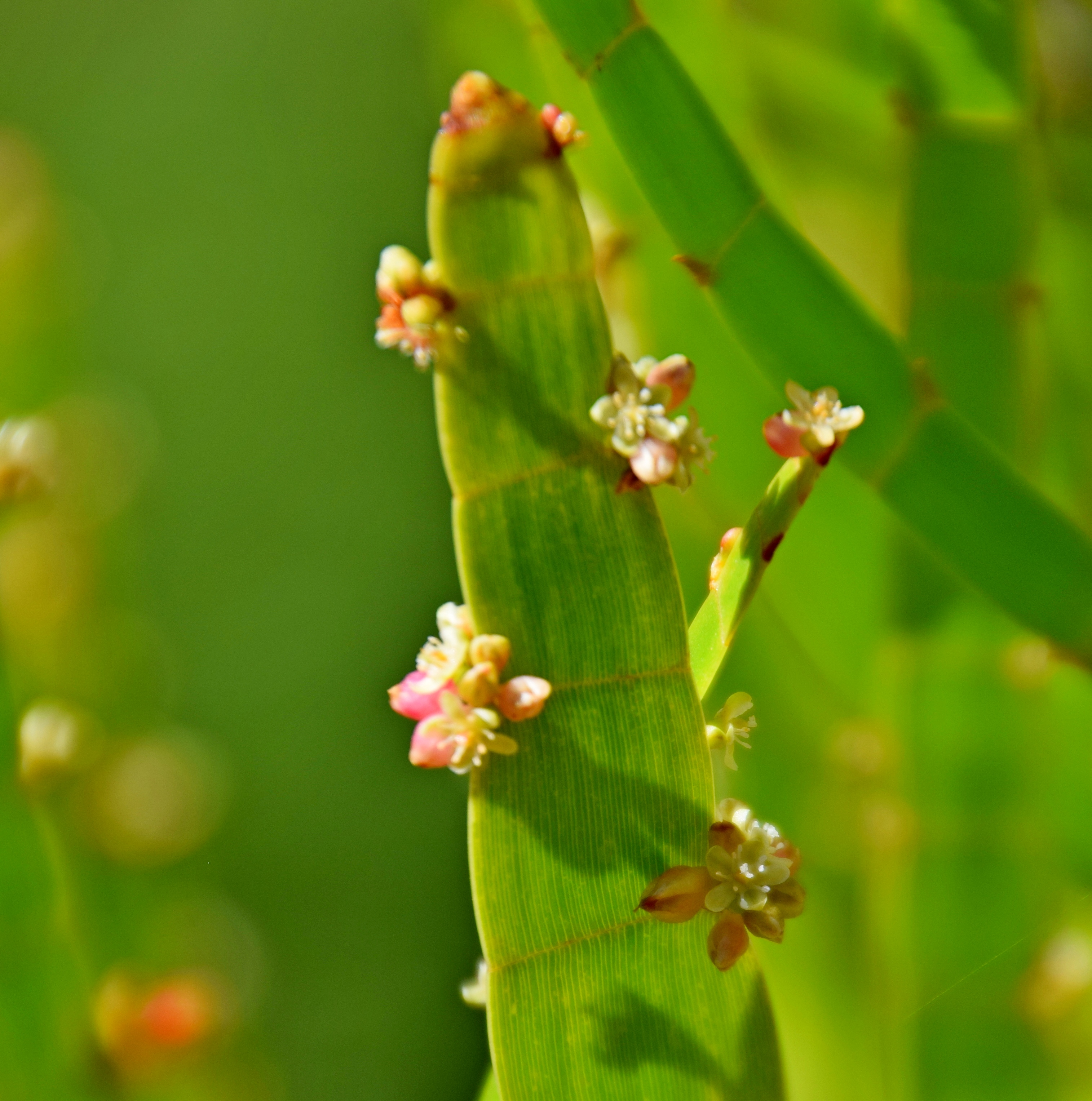 Homalocladium platycladum in Jardin des Plantes de Toulouse